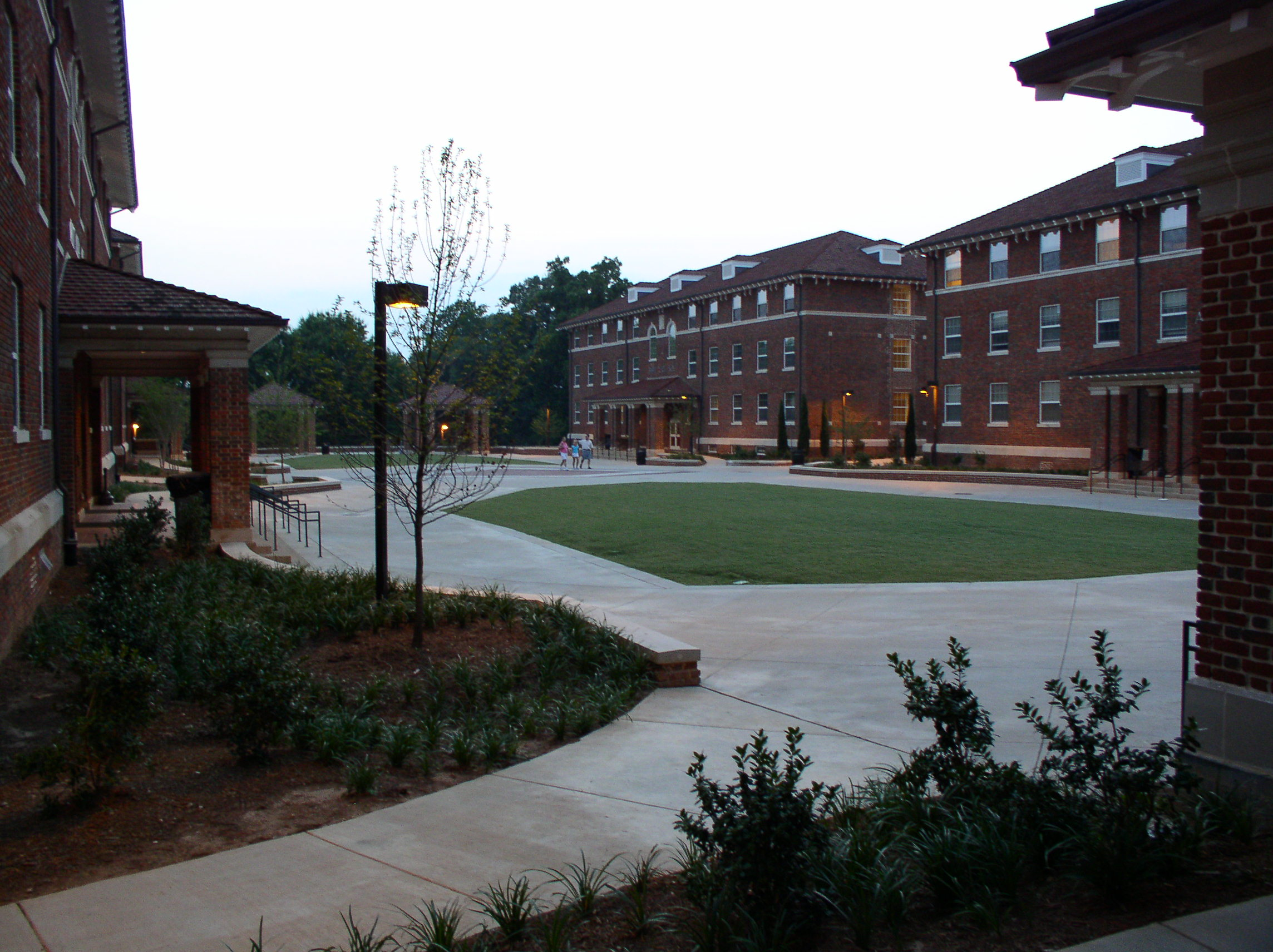 Courtyard of several Greek dormitories at Clemson University